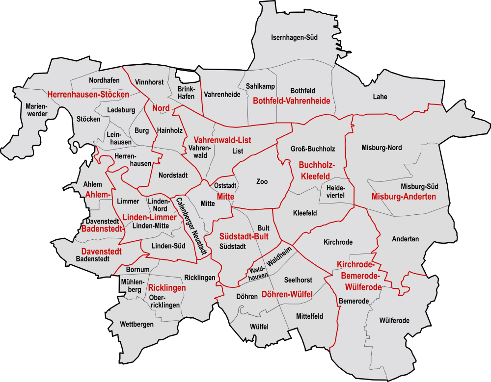 Districts and Quarters of Hannover, Germany